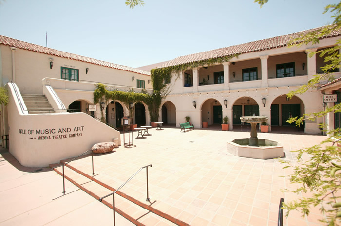 Exterior of the Temple of Music and Art in Tucson, Arizona.